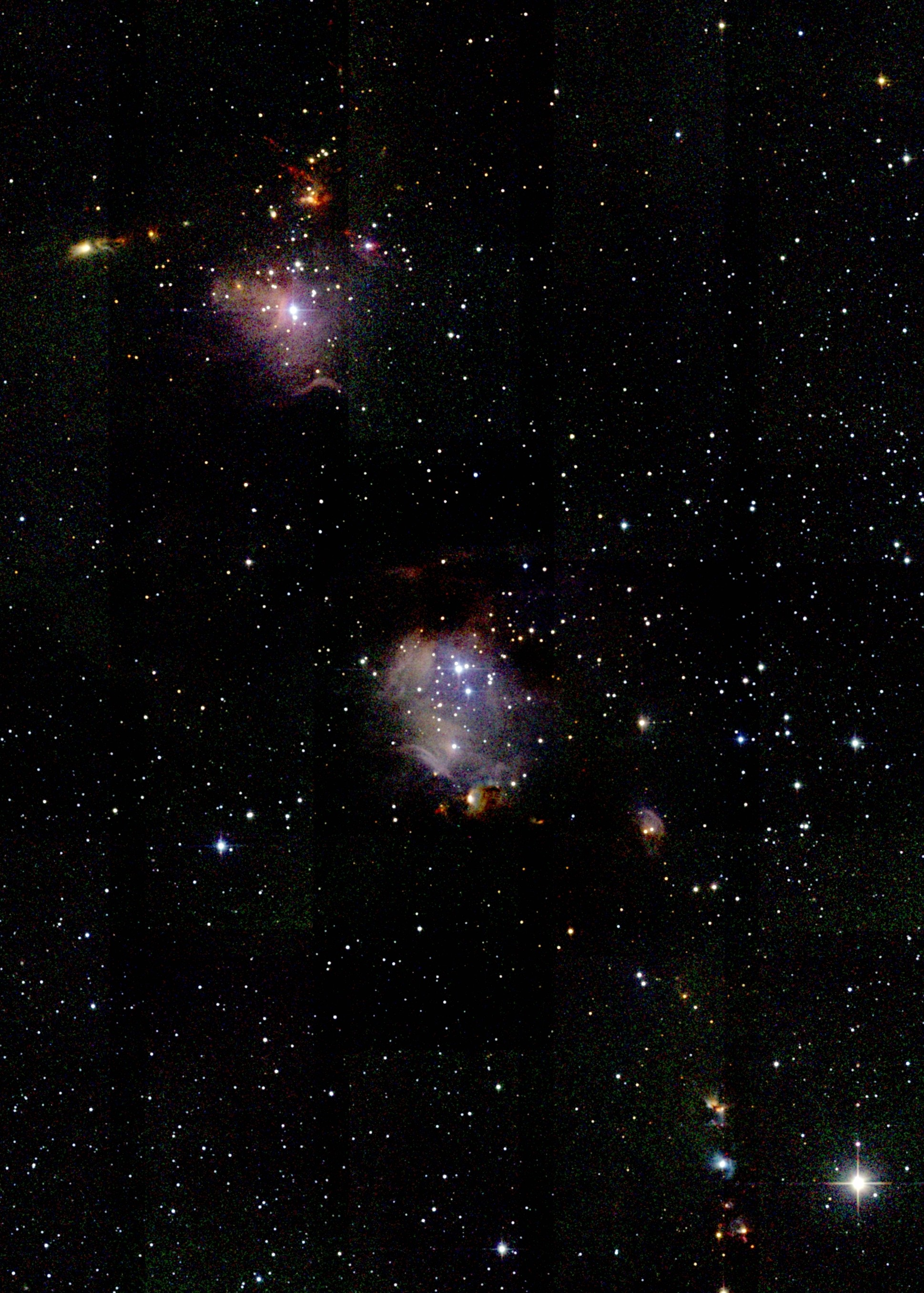 The reflection nebulae Messier 78